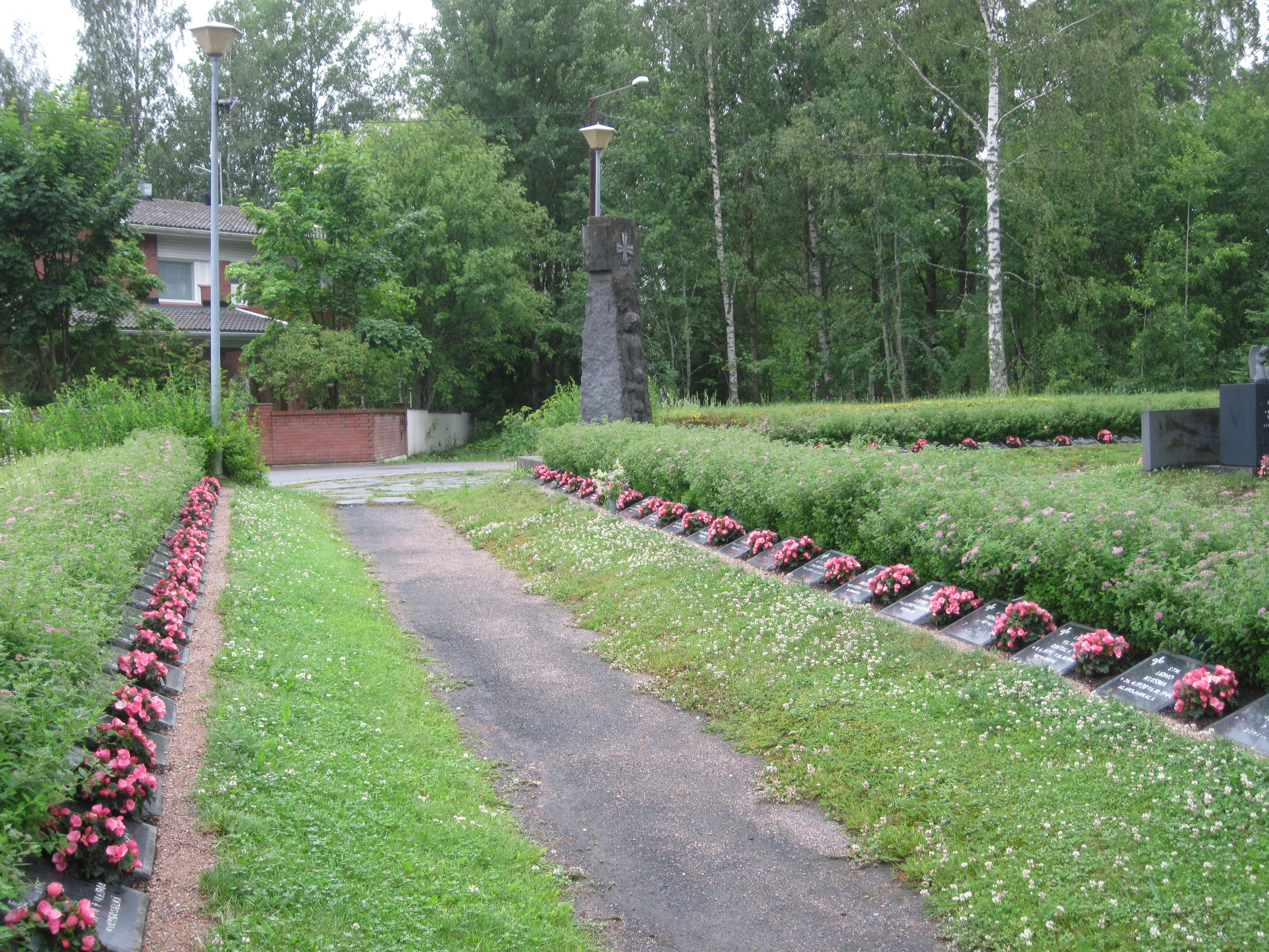 Military cemetary at church in parkano, Finland